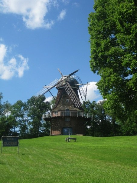 Volendam Windmill on the Hunterdon Plateau in New Jersey